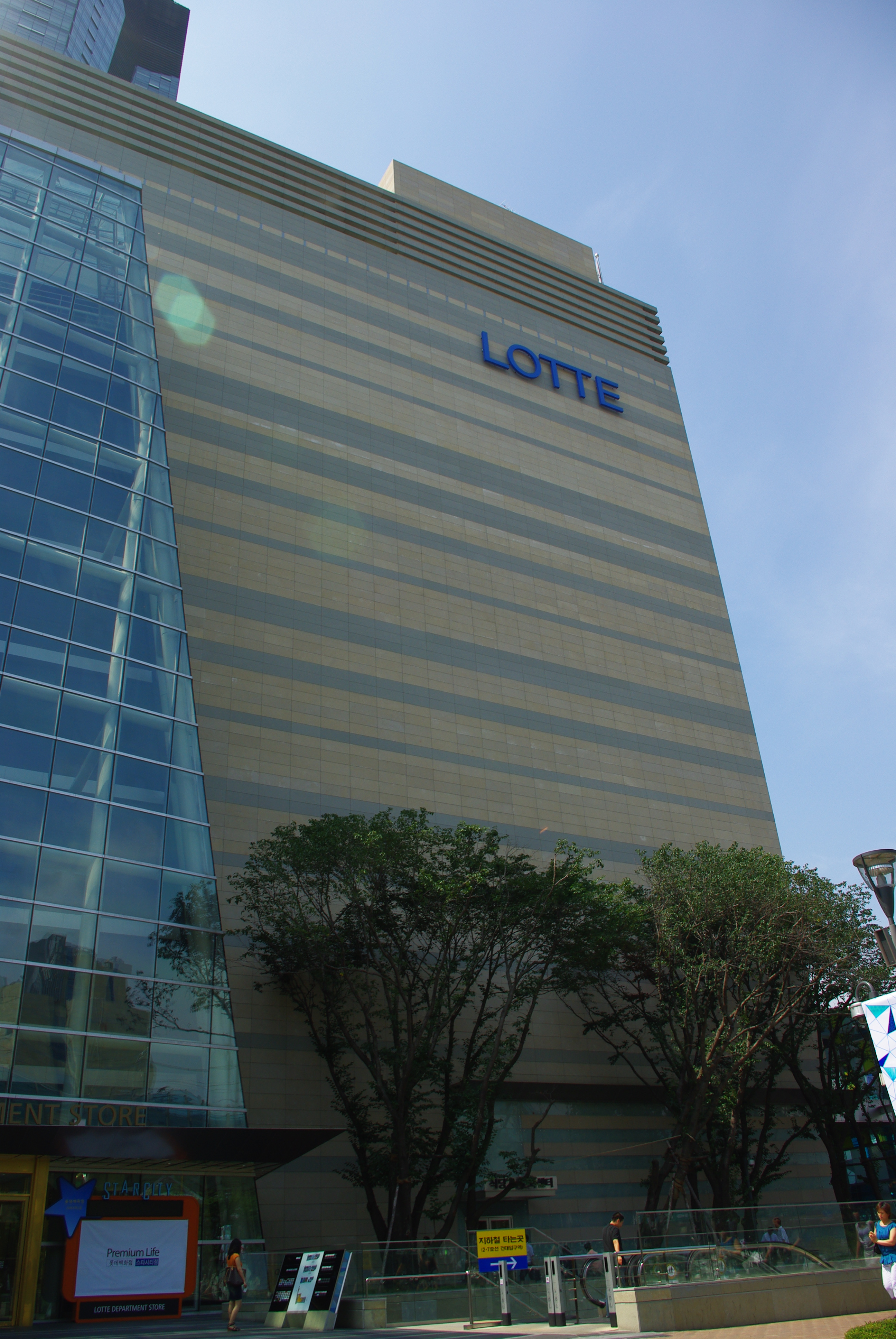 This is an exterior shot of the Lotte Department Store in Star City, Seoul